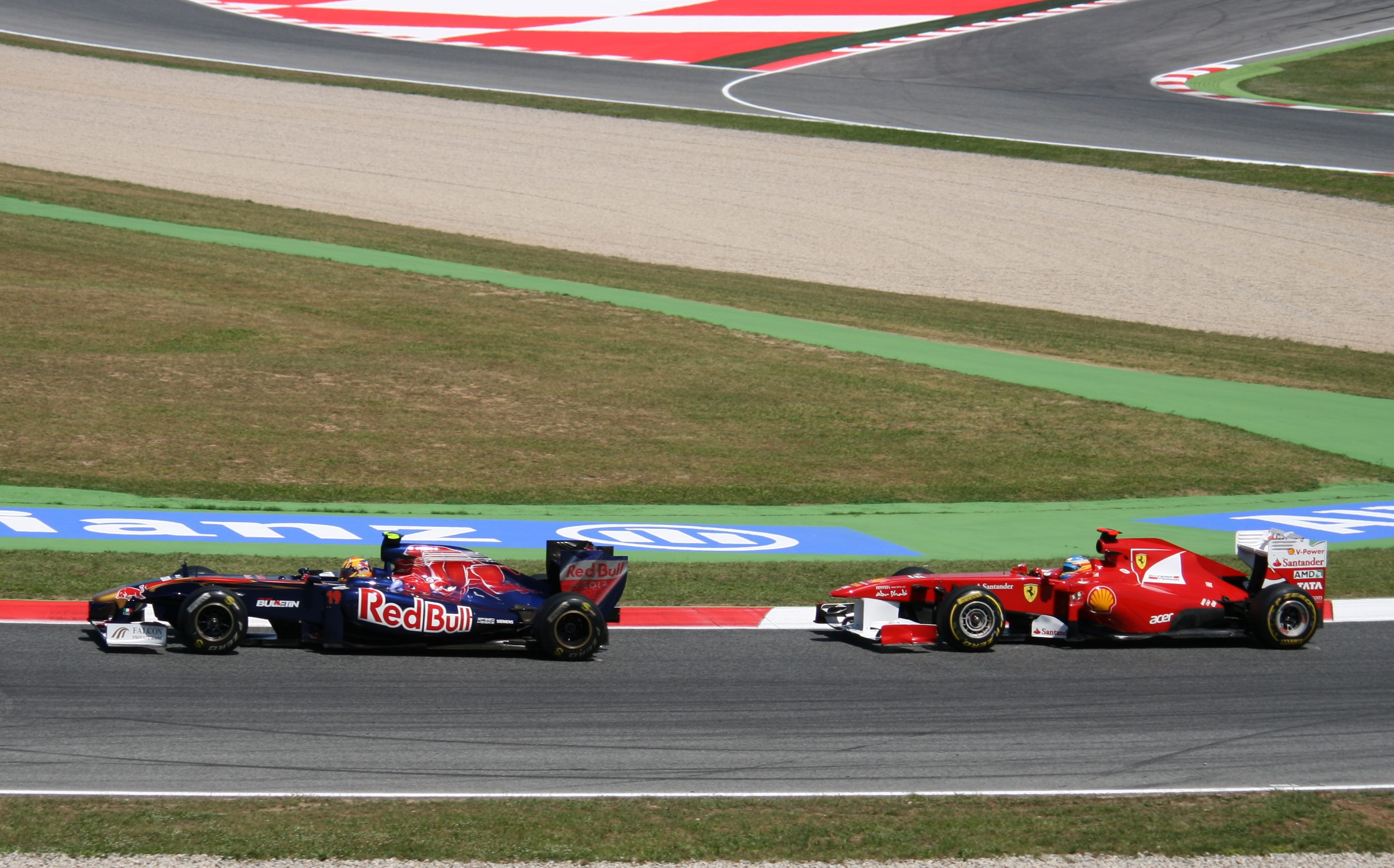 Jaime Alguersuari (Toro Rosso) and Fernando Alonso (Ferrari)